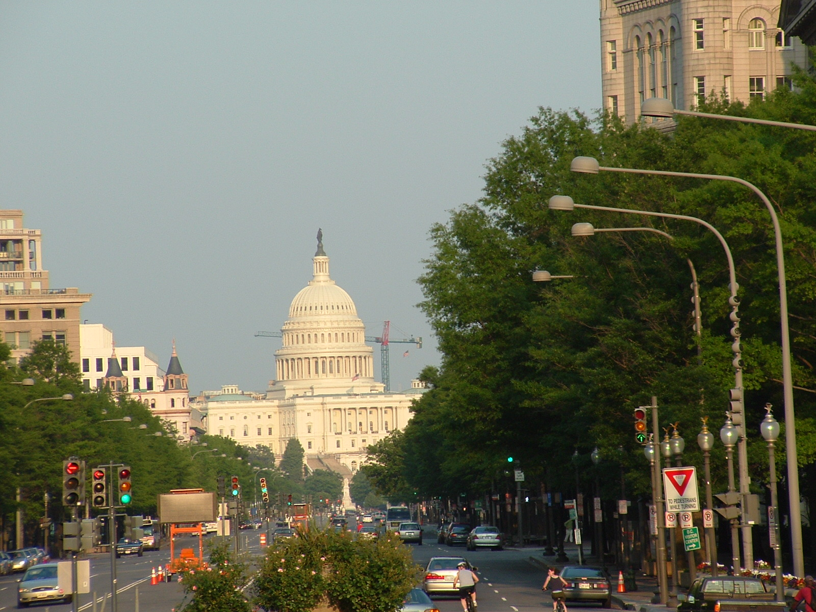 Capitolio, Washington DC